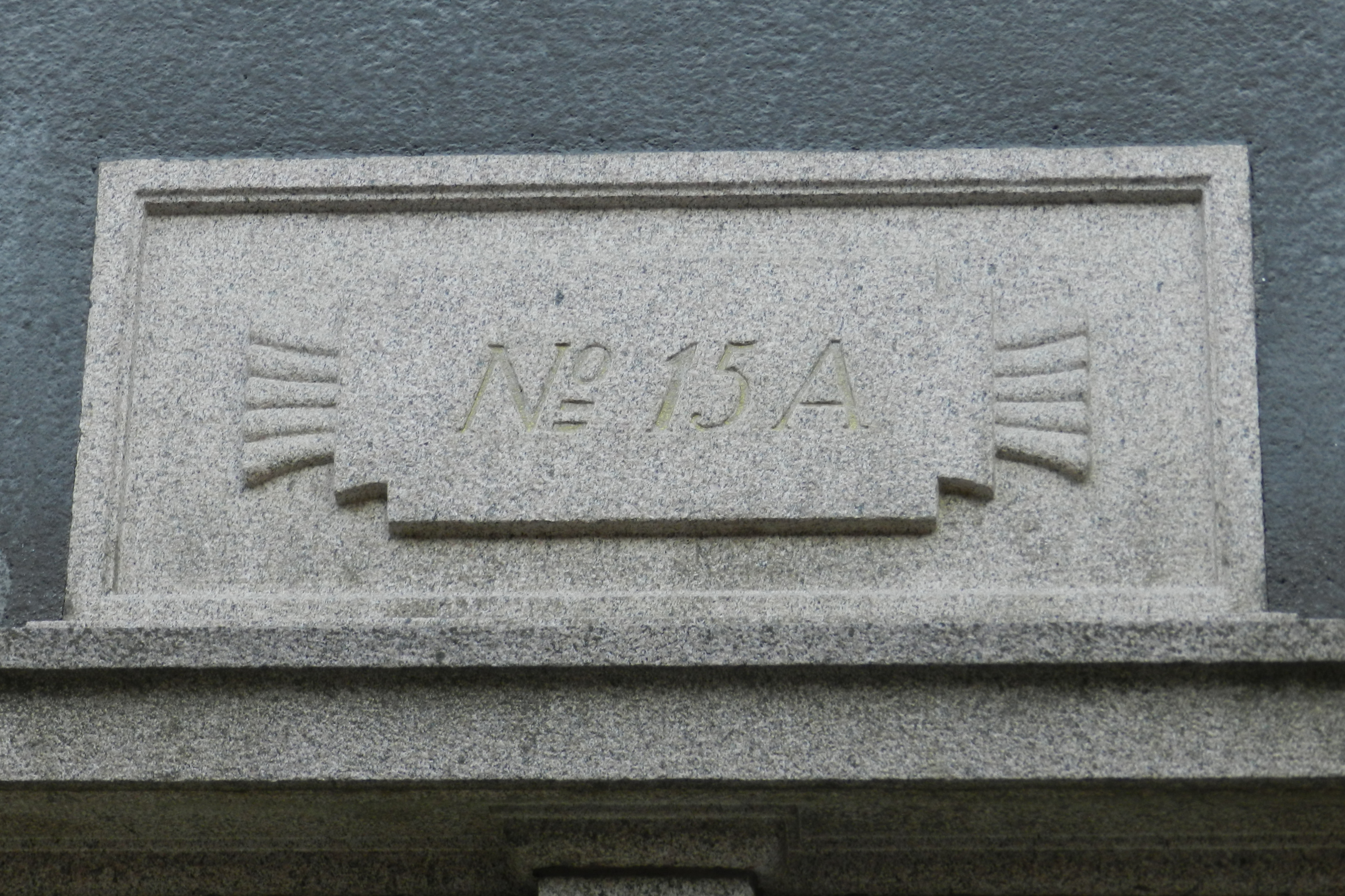 Husnummer Karlavägen 15 A, Stockholm, september 2018